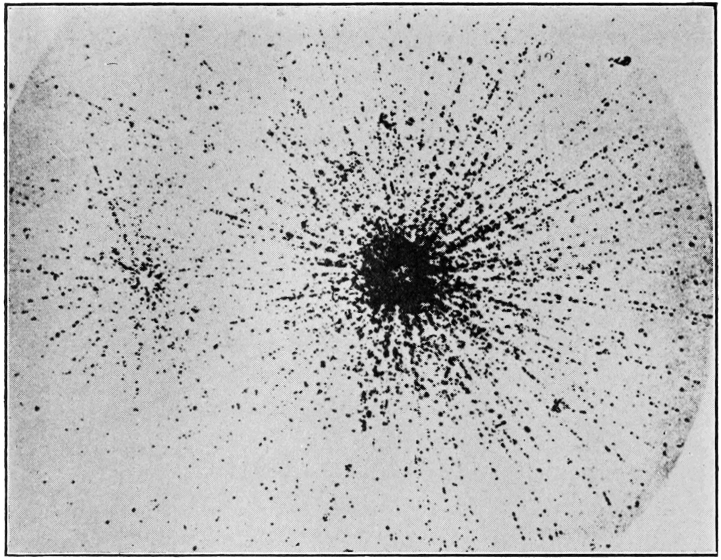 Photographic effect due to alpha particles